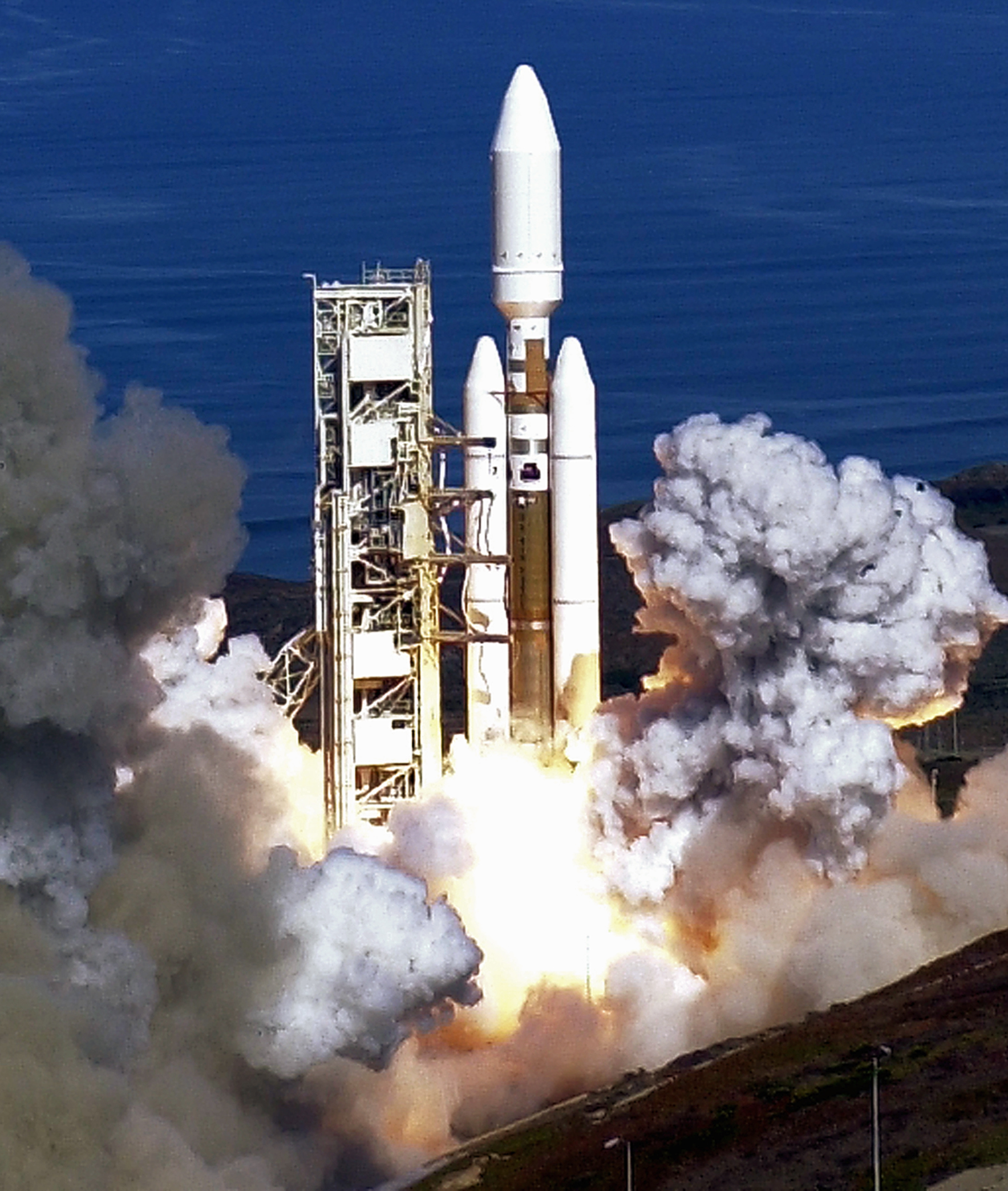 A Titan IV Centaur rocket launches here Oct. 19. The rocket is the largest unmanned space booster used by the Air Force. The vehicle carries payloads equivalent to the size and weight of those carried on the space shuttle.